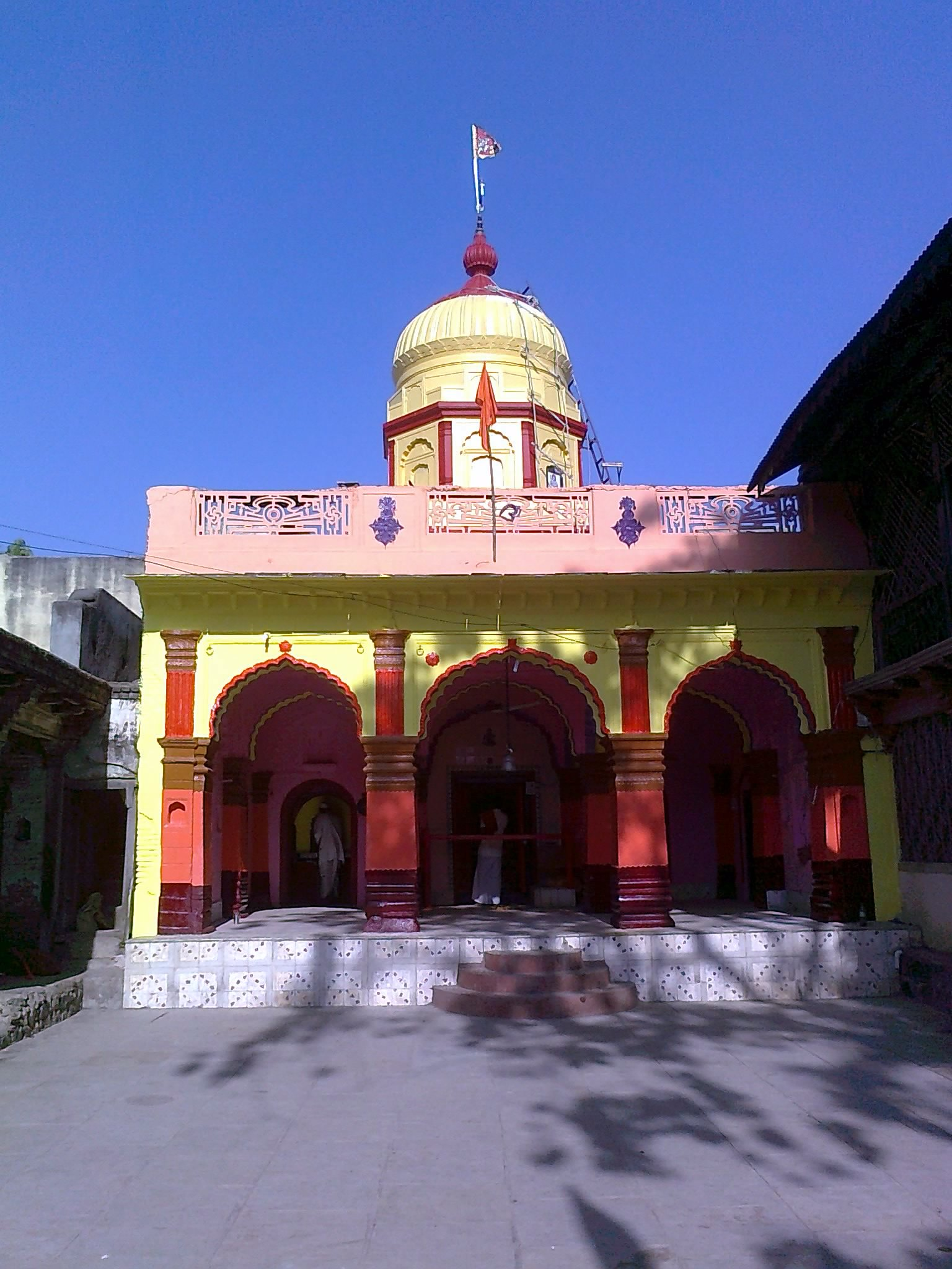 Raam Mandir after colouring at Chinawal village, India